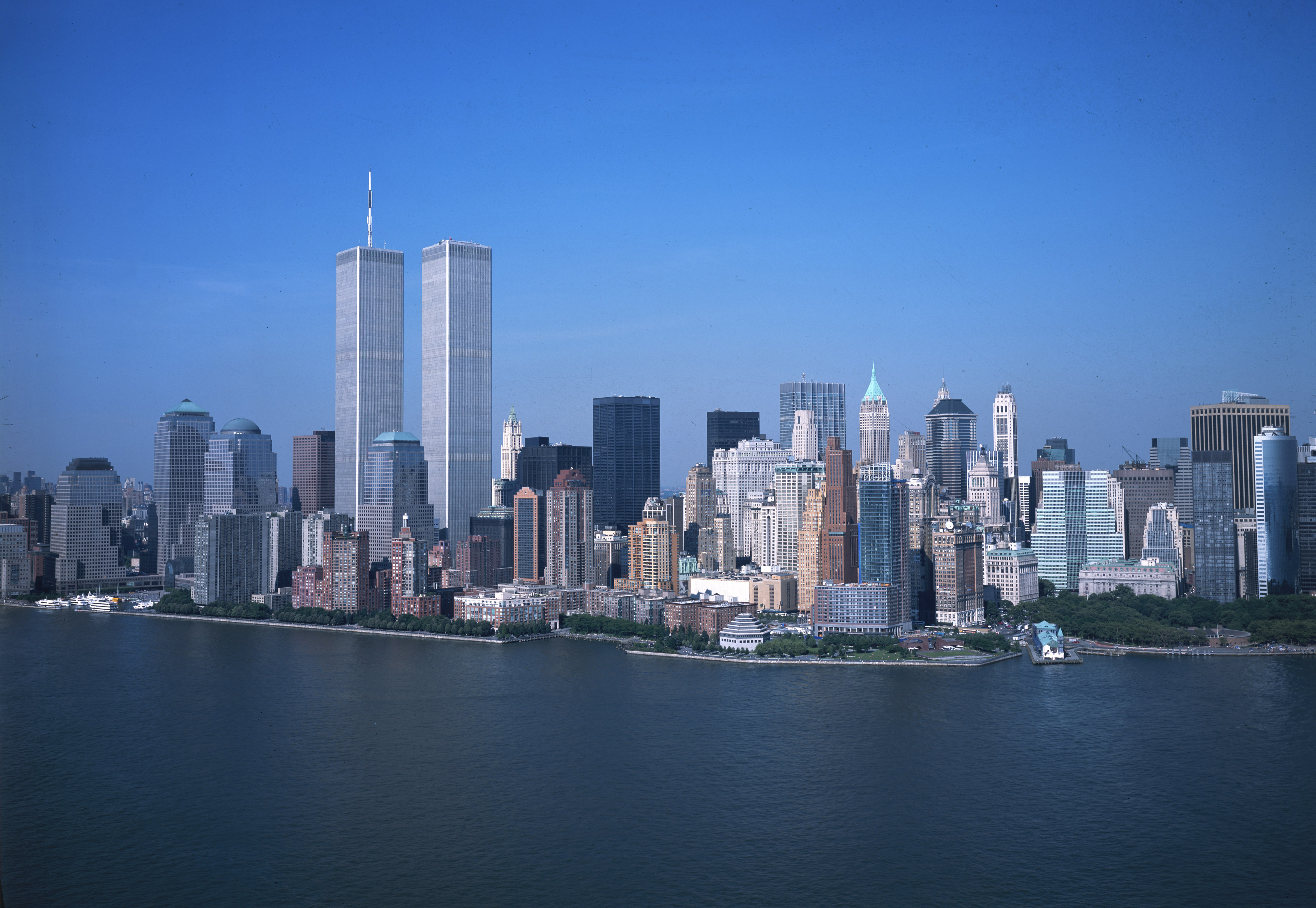 Manhattan skyline; New York City skyline remembered [includes view of the World Trade Center before September 11, 2001 terrorist attacks] CALL NUMBER: Unprocessed in PR 13 CN 2002:018 [P&P]; MEDIUM: 3 items. CREATED/PUBLISHED: 2001. Media includes: 3 Posters : offset. Collection stored onsite. Includes: 1 C size container (partial); 1 MCD size container (partial). On 8/16/02, Carol Highsmith gave the Library a third poster which she considered a better printing. All three posters were retained because they were each variants. Digital file of image is accessioned as DLC/PP-2002:091. This record contains unverified data from accession records. Gift; Carol Highsmith. REPOSITORY: Library of Congress Prints and Photographs Division Washington, D.C. 20540 USA; CARD #: iuc2005005410